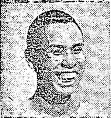 He is a 1920 summer Olympian represent for Japan.